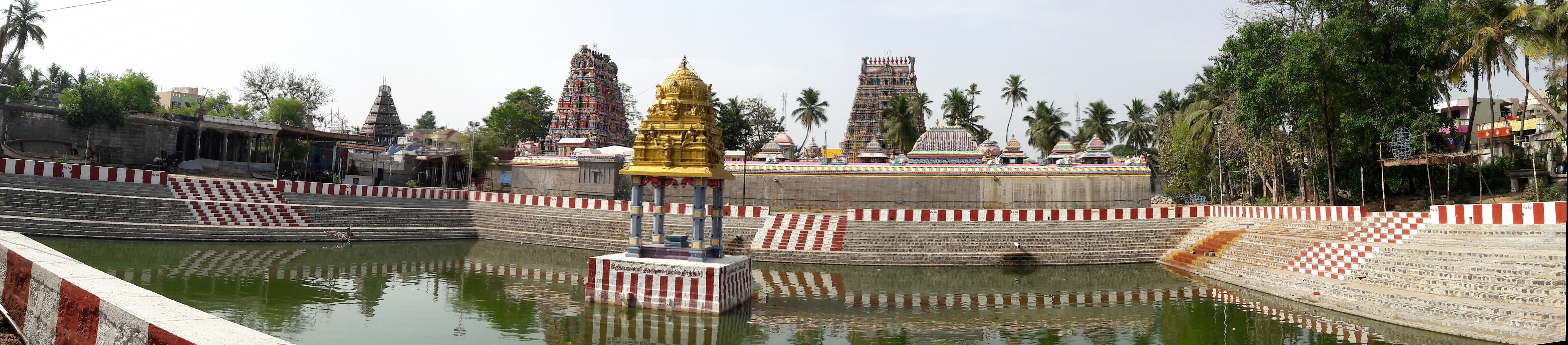 Villianur temple panorama